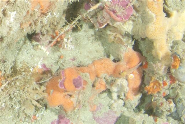 Gobius xanthocephalus photographed in Morocco